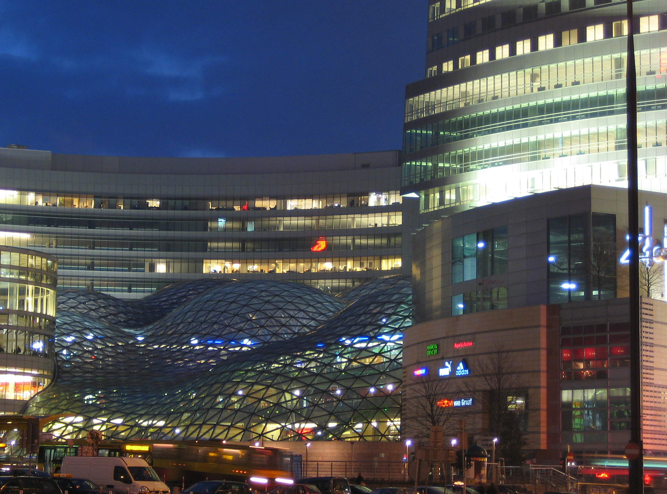 Zlote Tarasy in Warsaw. Shopping Mall